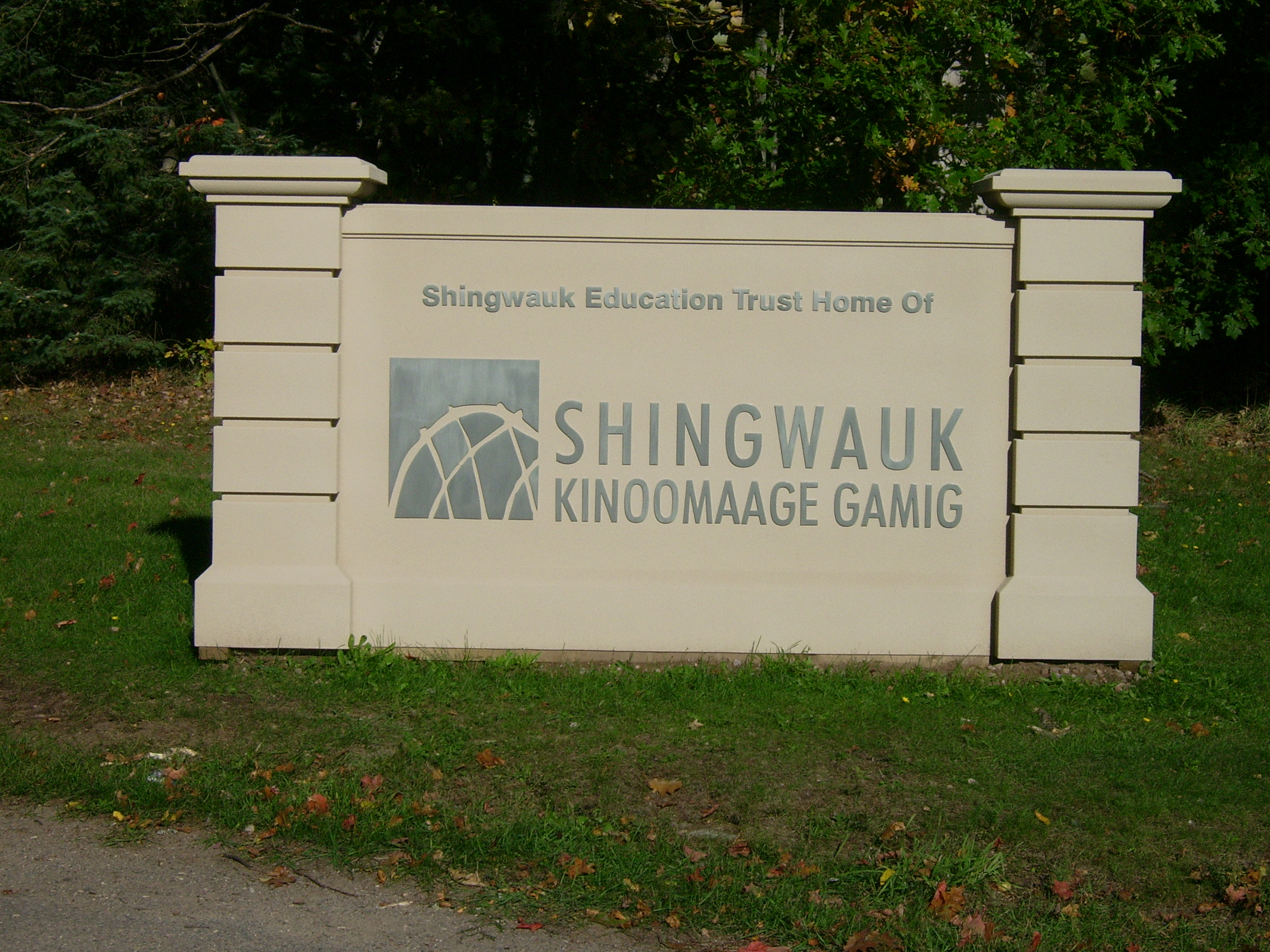 Entrance sign at Shingwauk Kinoomaage Gamig, Sault Ste. Marie, Ontario.